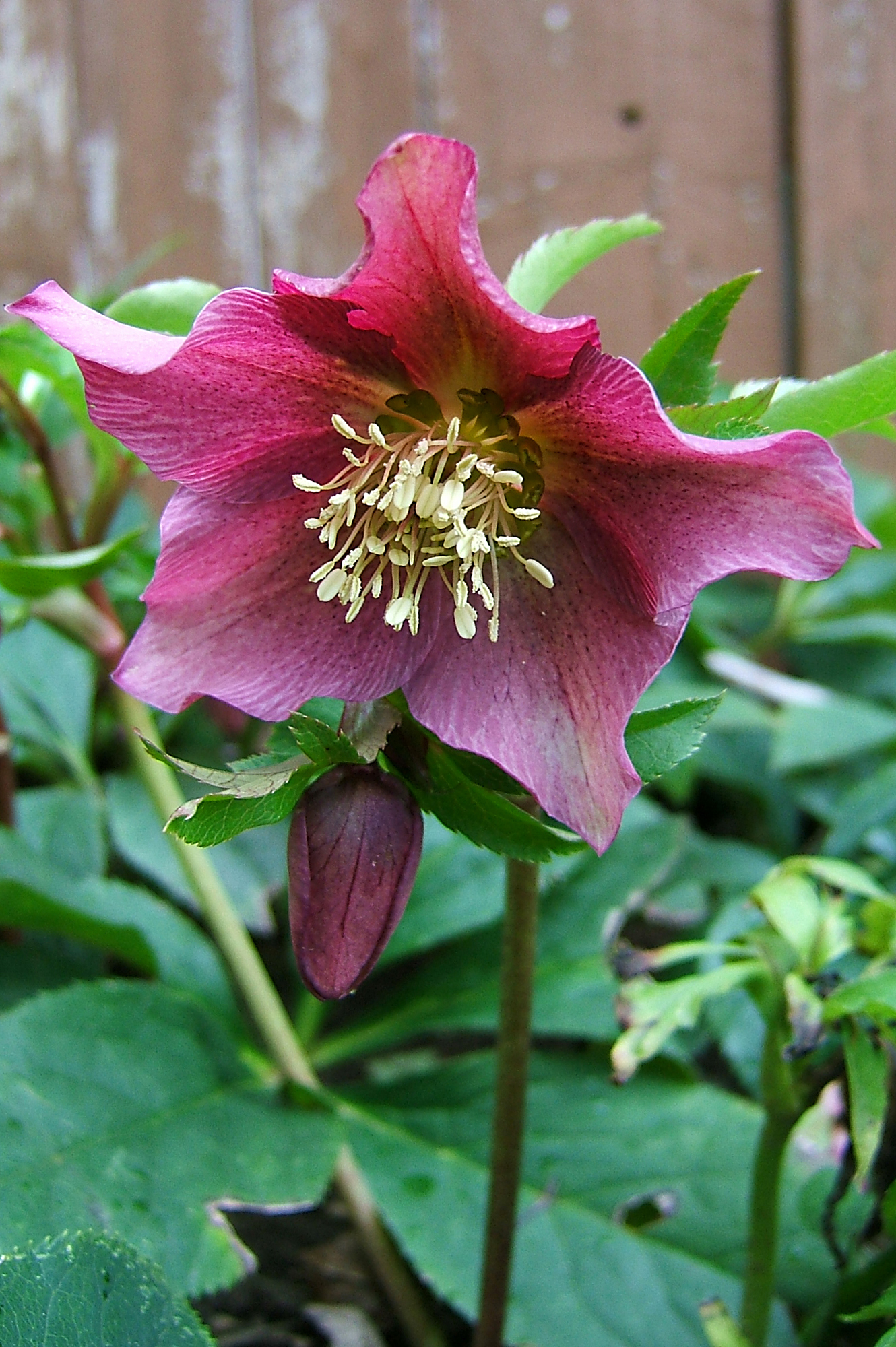 Plants growing in a half shady place at 240 m in Rems Valley, a warm viniculture region in Baden_Württemberg, Germany.